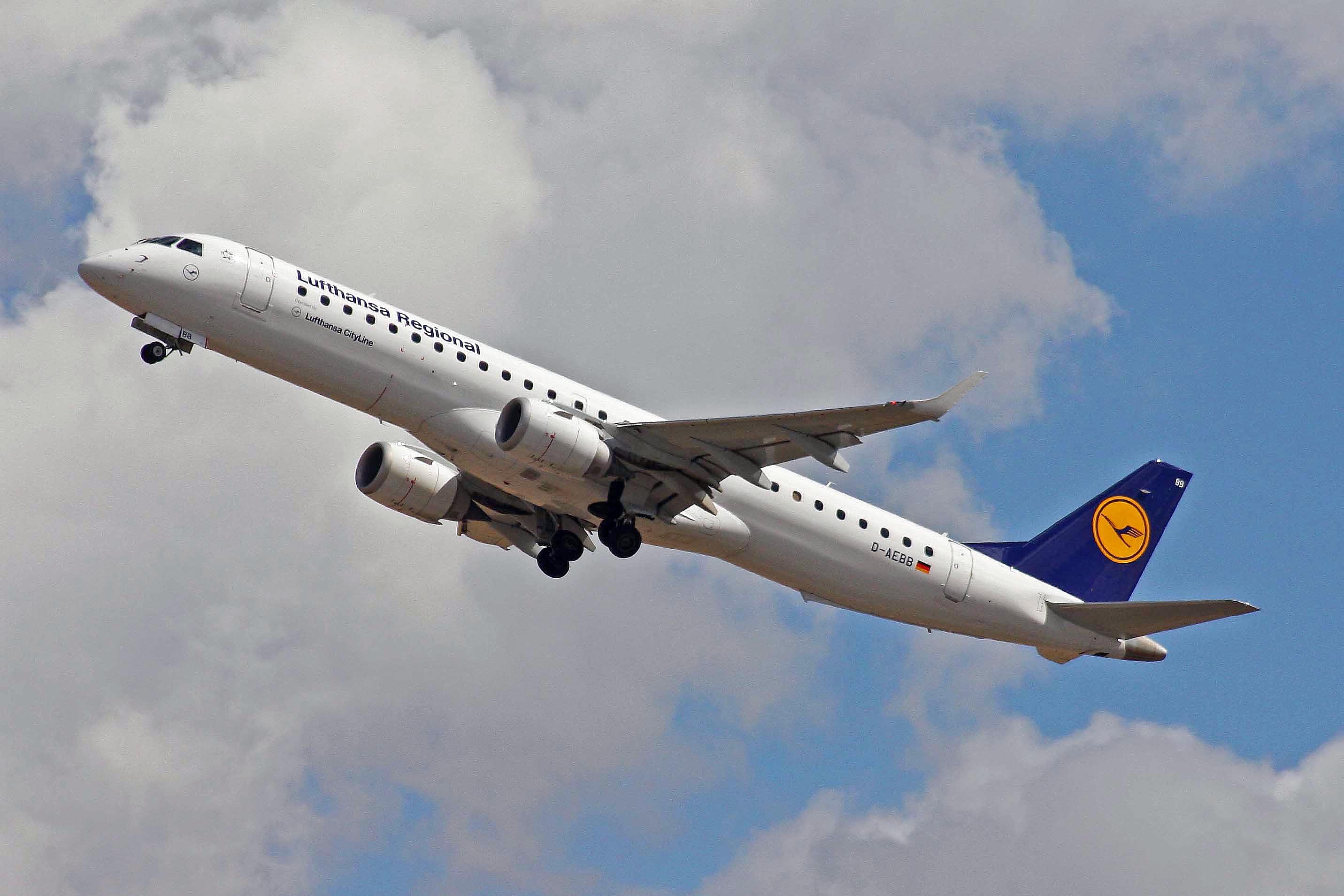 A picture of an airplane (name of it is on the file name).